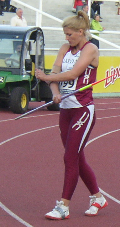 Latvian athlete Madara Palameika preparing for her sixth attempt in javelin throw at 17th edition of the Josef Odložil Memorial (EAA Premium Meeting, Na Julisce Stadium, Prague, Czech Republic, 14 June 2010). Palameika ranked third for her first attempt of 60,29m.